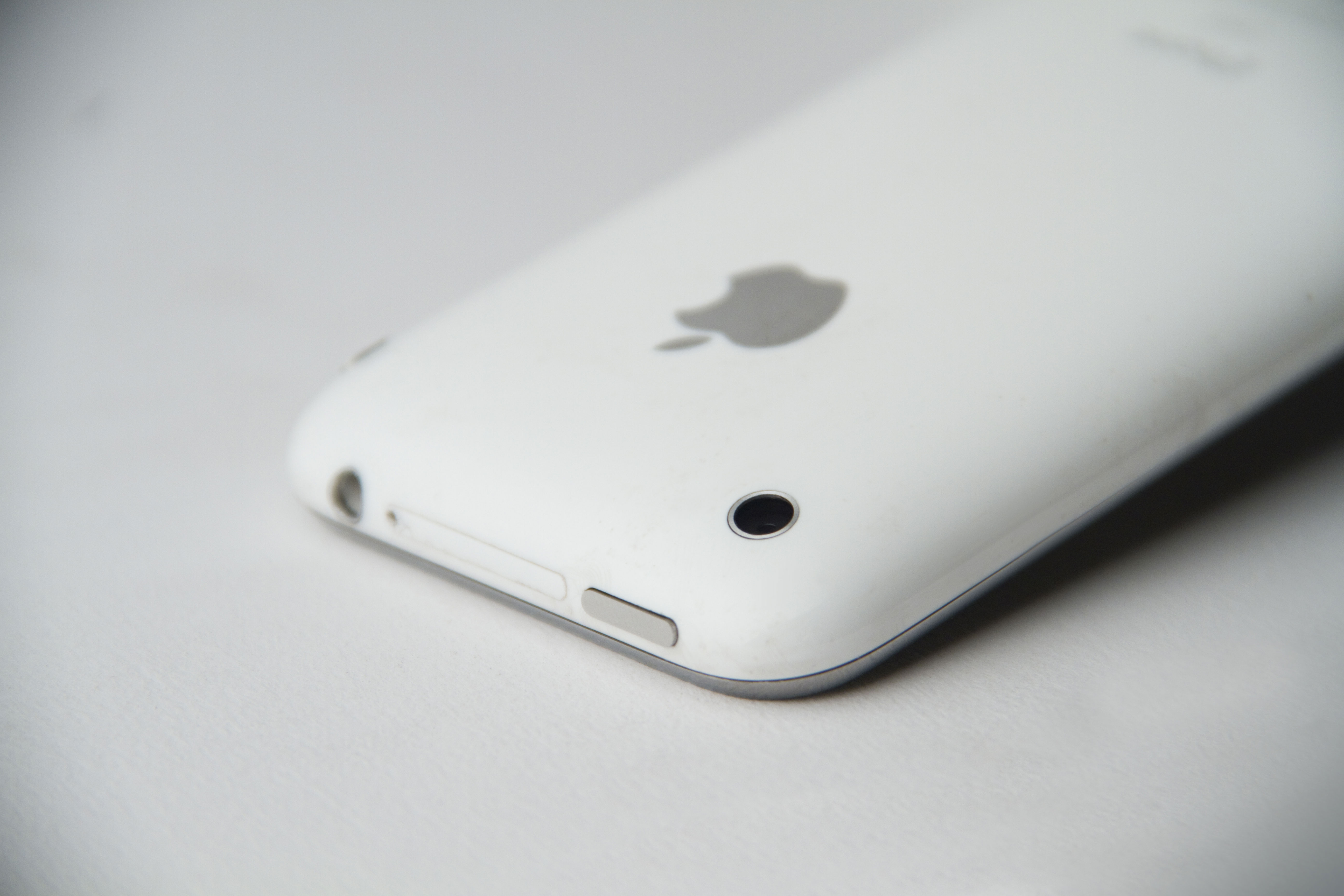 Back of iPhone 3G white showing the fixed focus 2 megapixel camera.